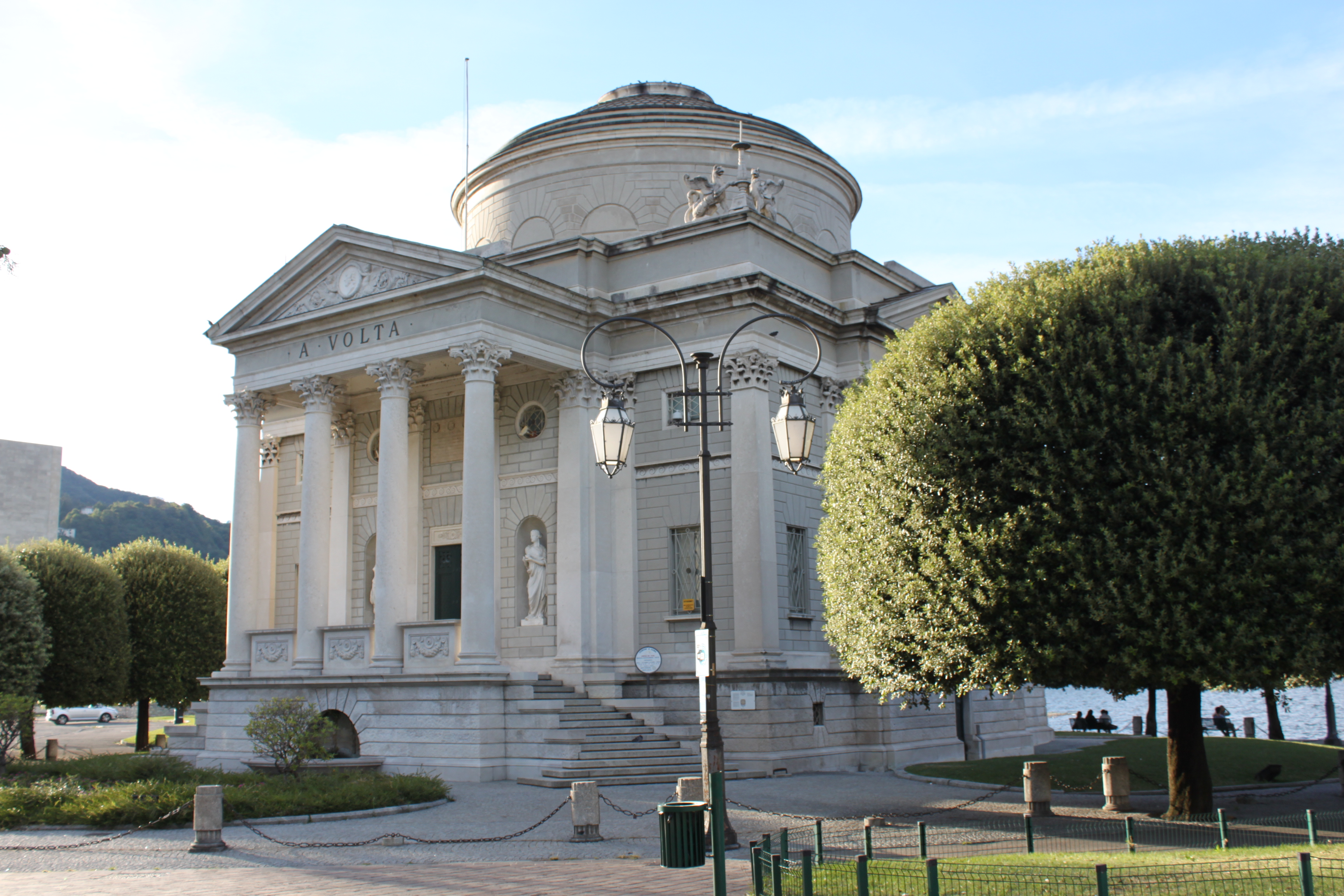 Tempio Voltiano, Como, Italy.